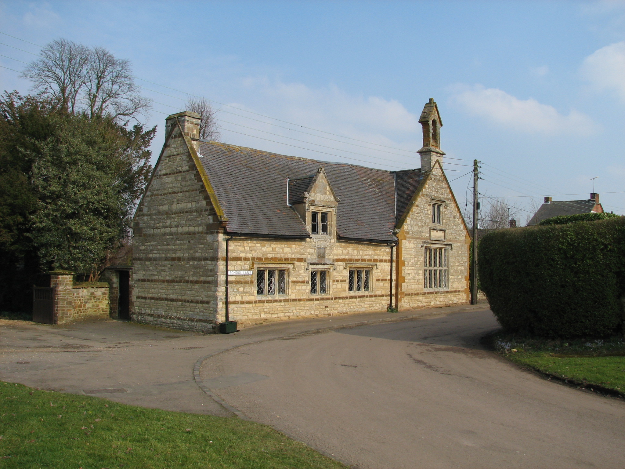 Abthorpe Village Hall, Abthorpe, South-Northants Northamptonshire England UK